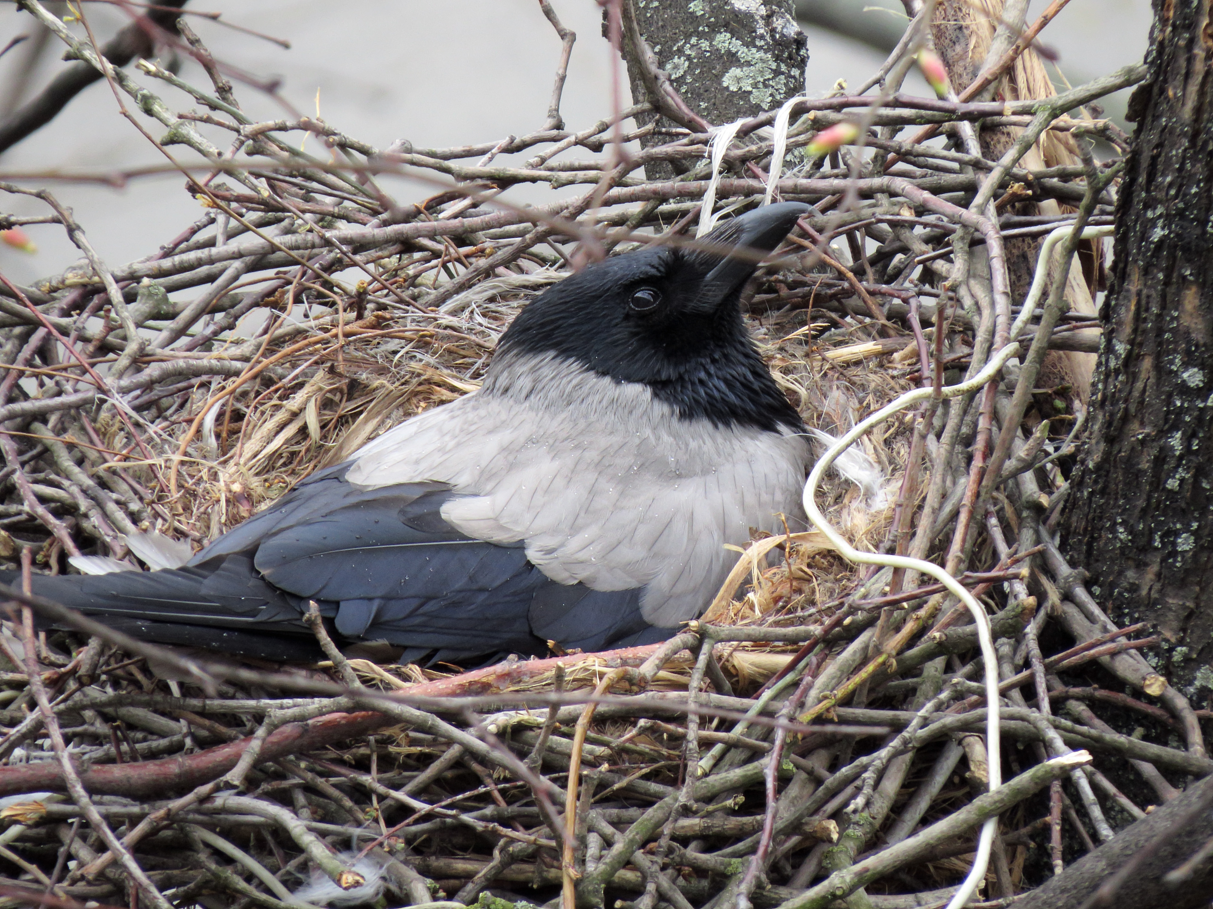 Hooded crow (Corvus cornix) on nest. Location: Kiev, Ukraine